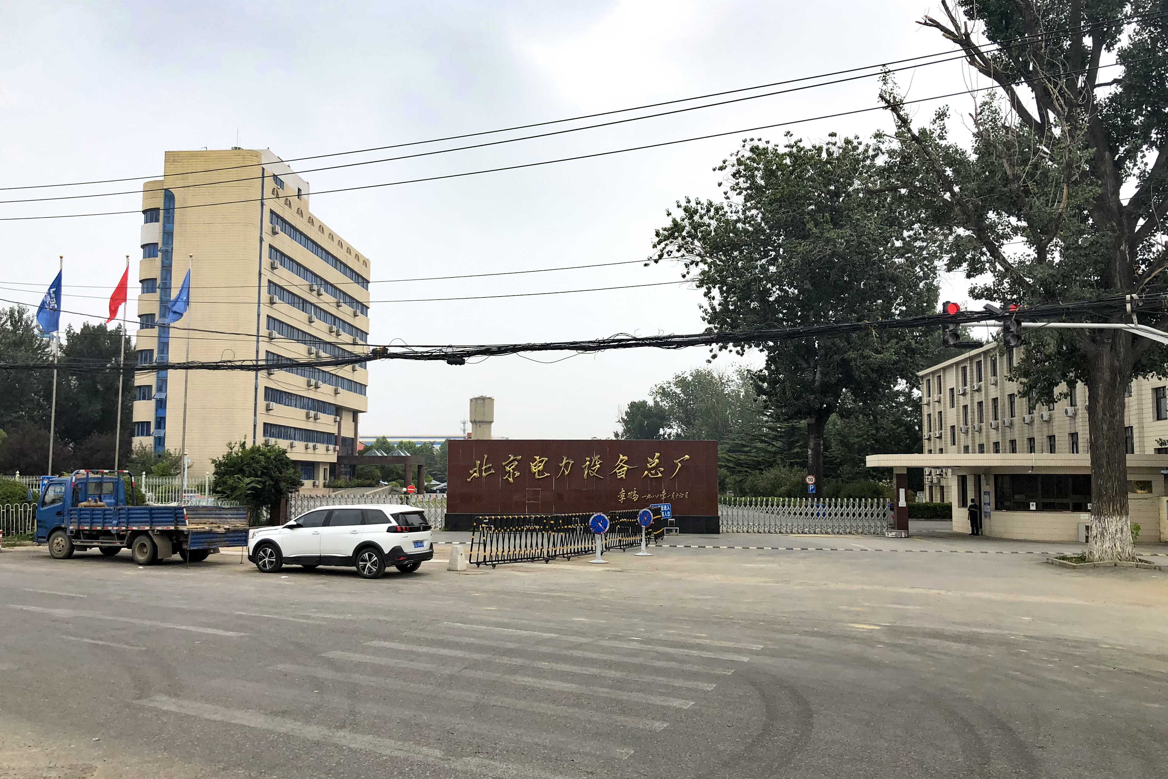 Li Peng's calligraphy can be seen at several electric-related places.